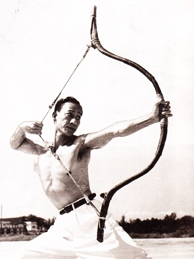 Kwan Tak Hing Demonstrating His Archery Skill